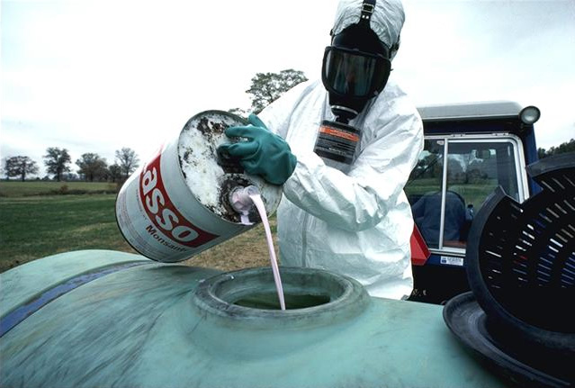 Monsanto Lasso herbcide to be sprayed on food crops. Generic is Alachlor.